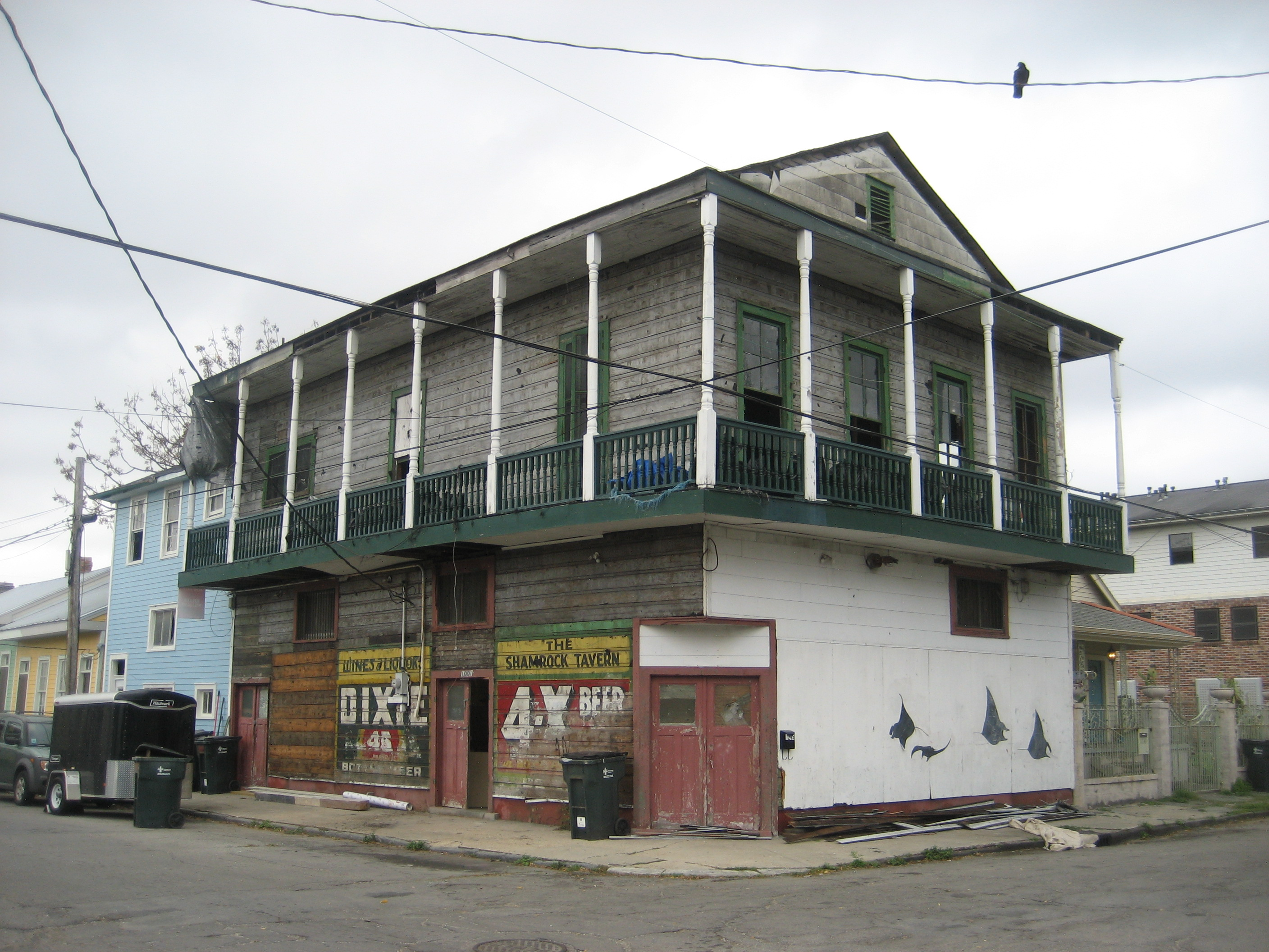 New Orleans: Building at downtown lake corner of Constance & Thalia Streets, Lower Garden District. Weatherbords removed from building during rennovation revealed painting from c. 1930s - 1940s.